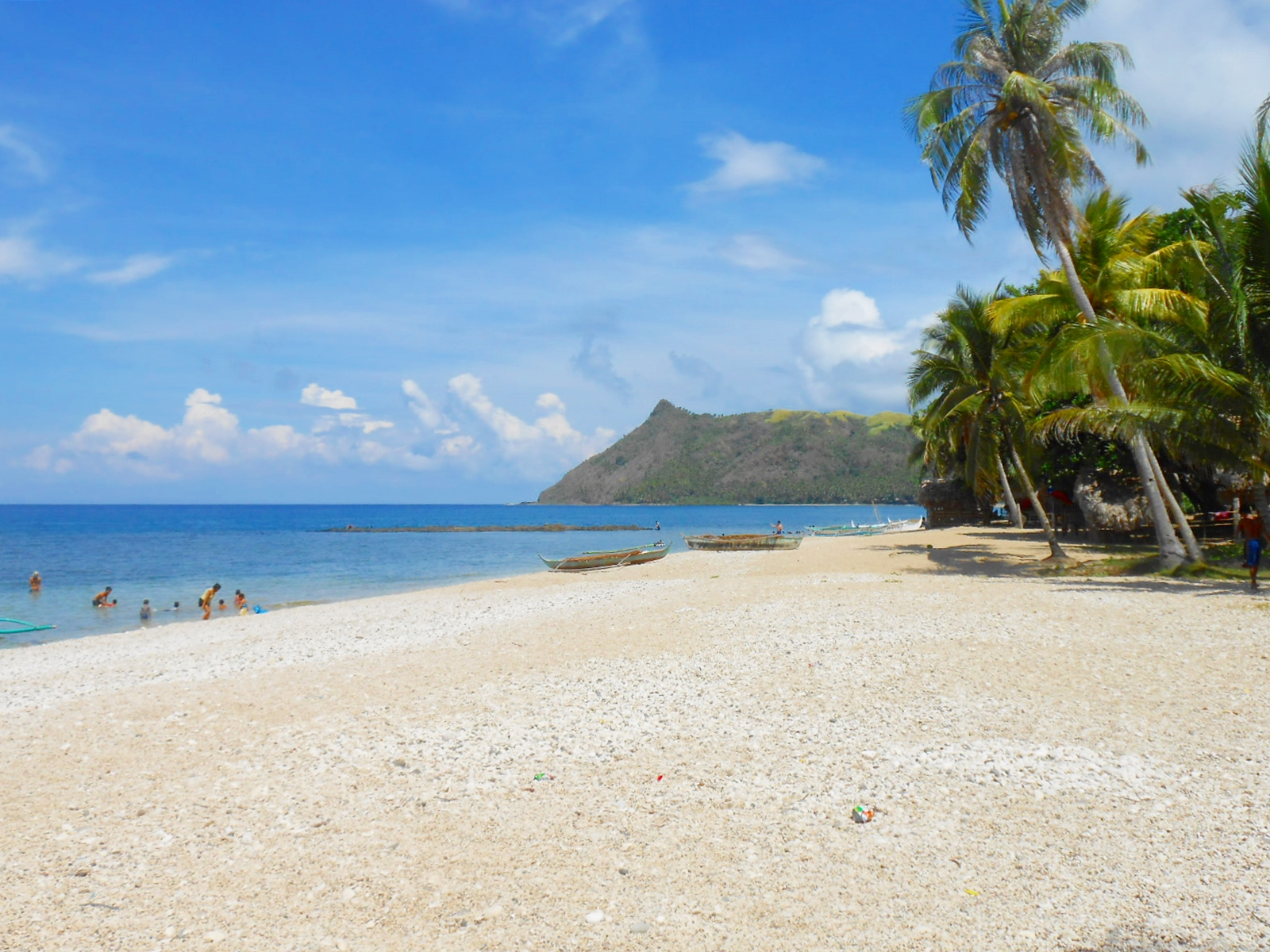 Date taken: May 18, 2013